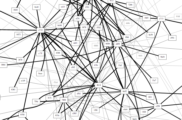 A fragment of Hyperboria networkRomână: Un fragment al rețelei Hyperboria